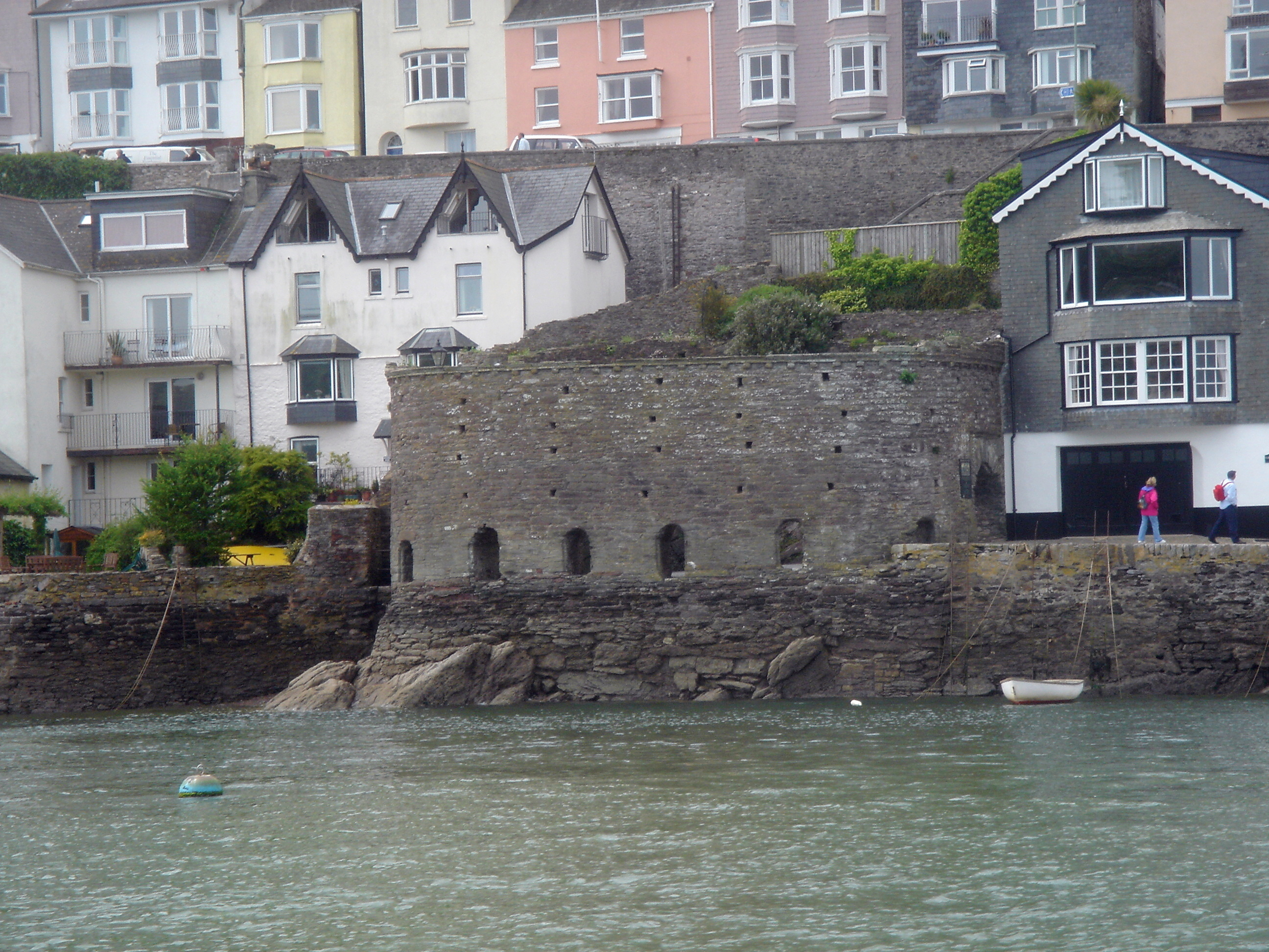 Bayard's Cove Fort, Dartmouth, Devon, view from Dart River